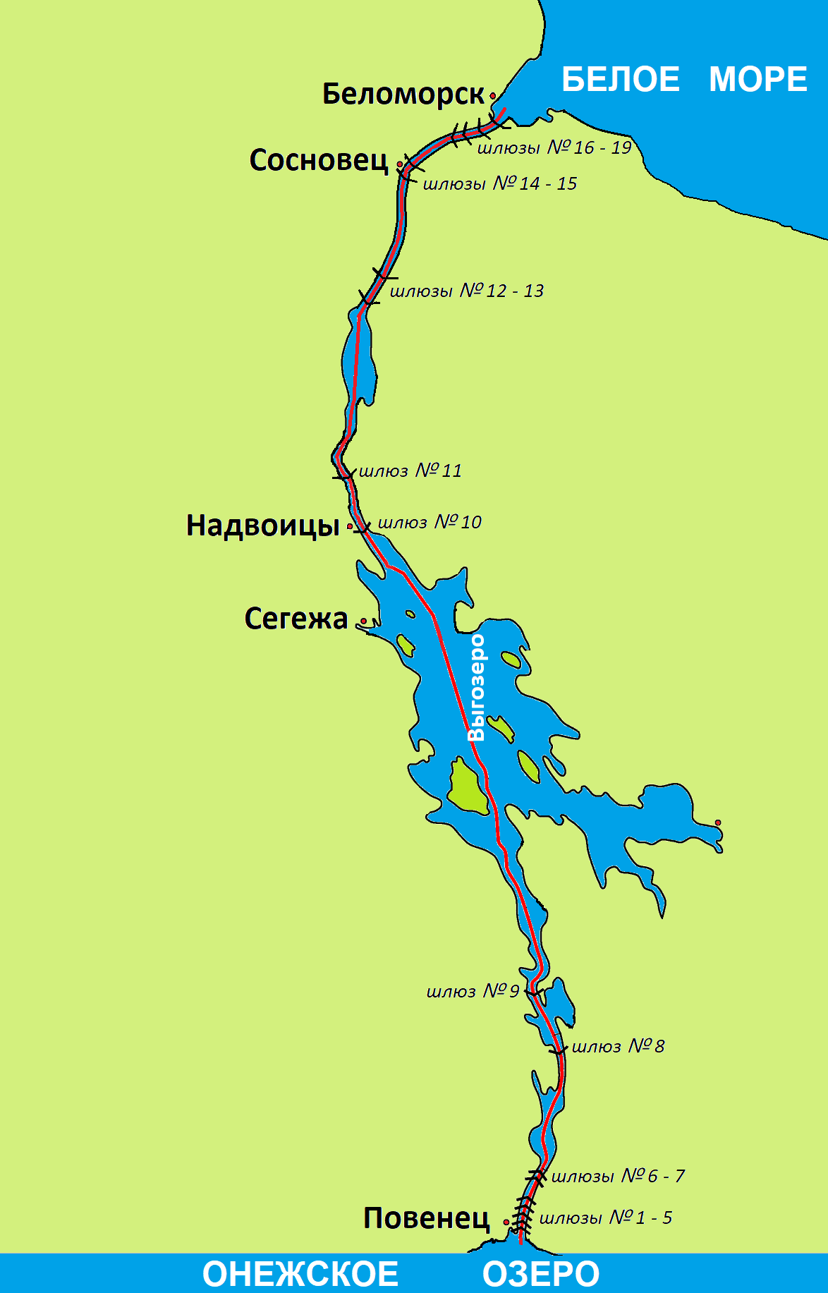 Map of the White Sea-Baltic Canal (Republic of Karelia)